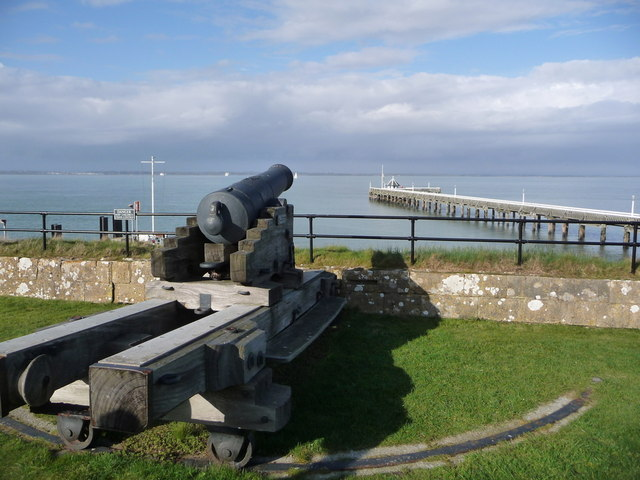 Artillery gun at Yarmouth Castle